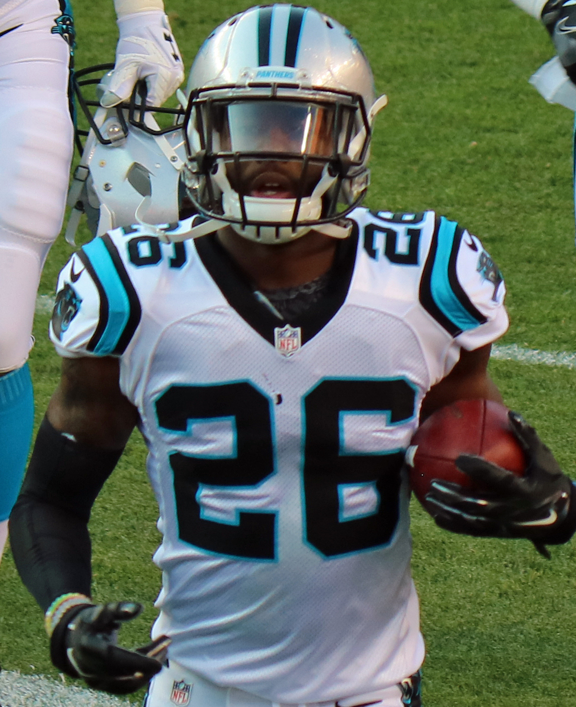 Daryl Worley, a player on the National Football League.